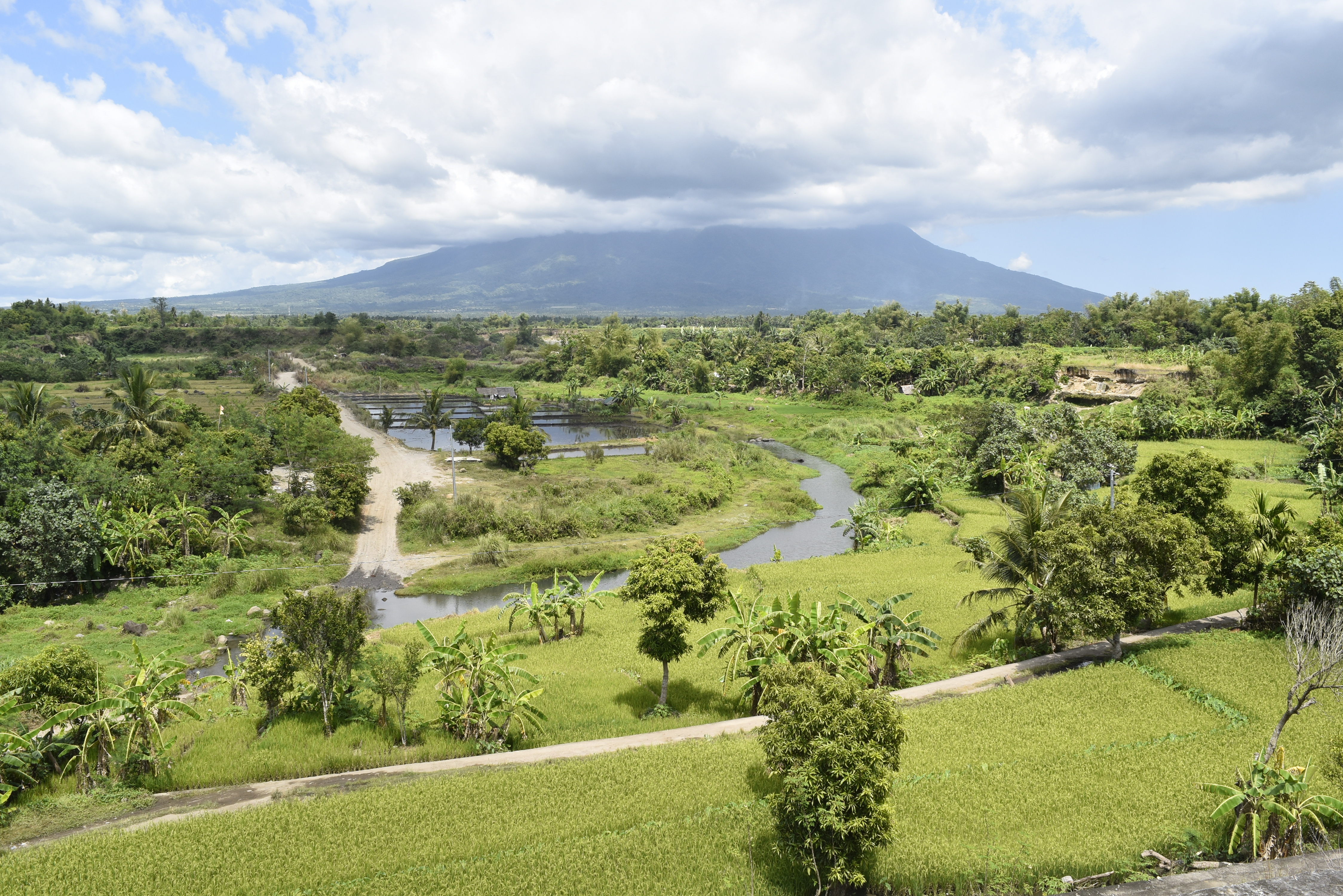 Mt Isarog seen in San Jose, Pili, Camarines Sur